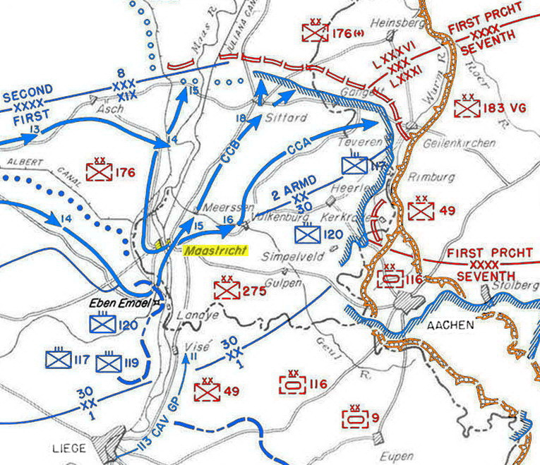 Drive From the Albert Canal to the West Wall, XIX Corps, 10-19 September 1944. Detail of a US Government map, previously modified by Hans Erren, further cropped and modified by kleon3.